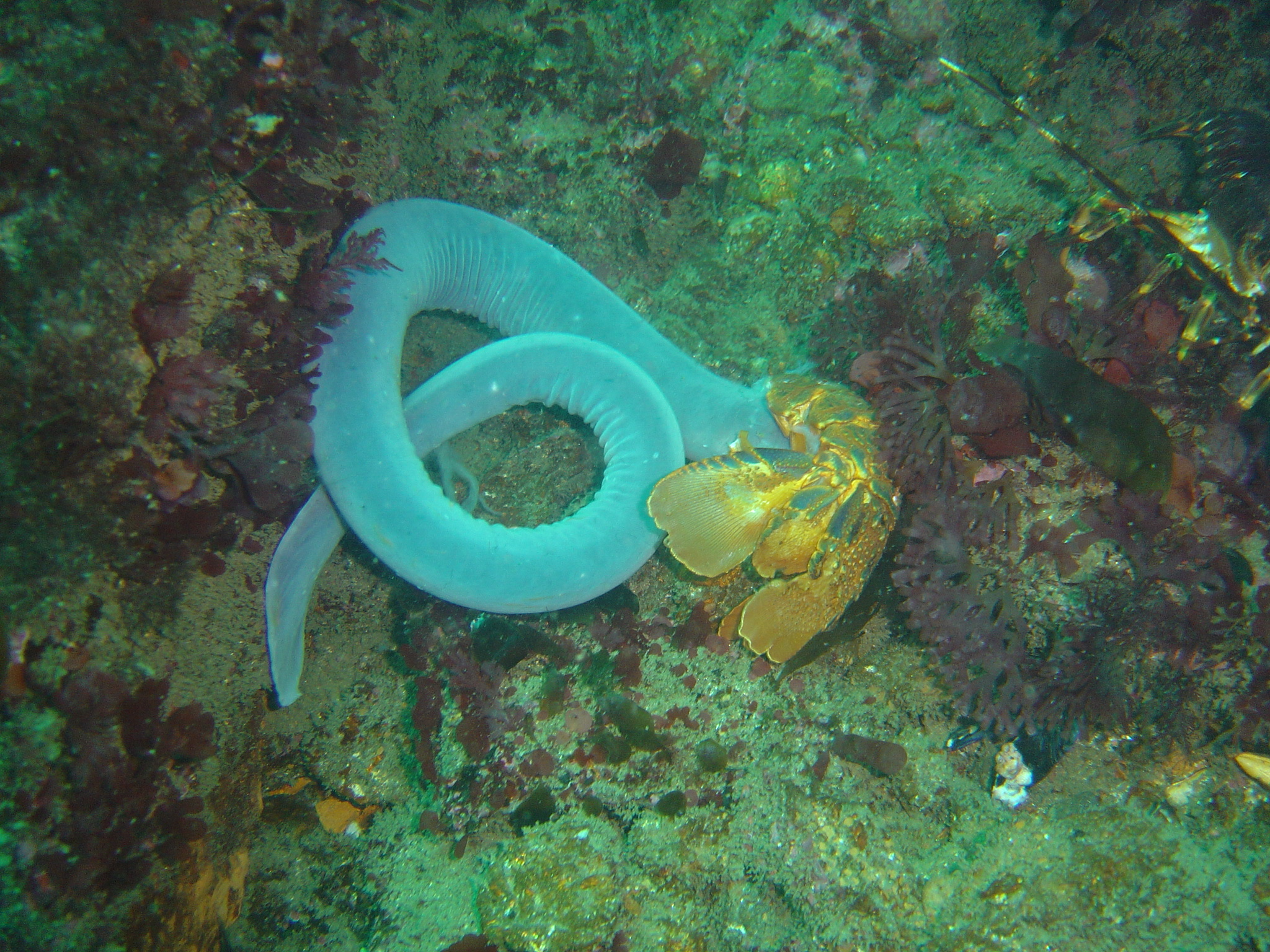 Hagfish, Duiker Point, Cape Peninsula.